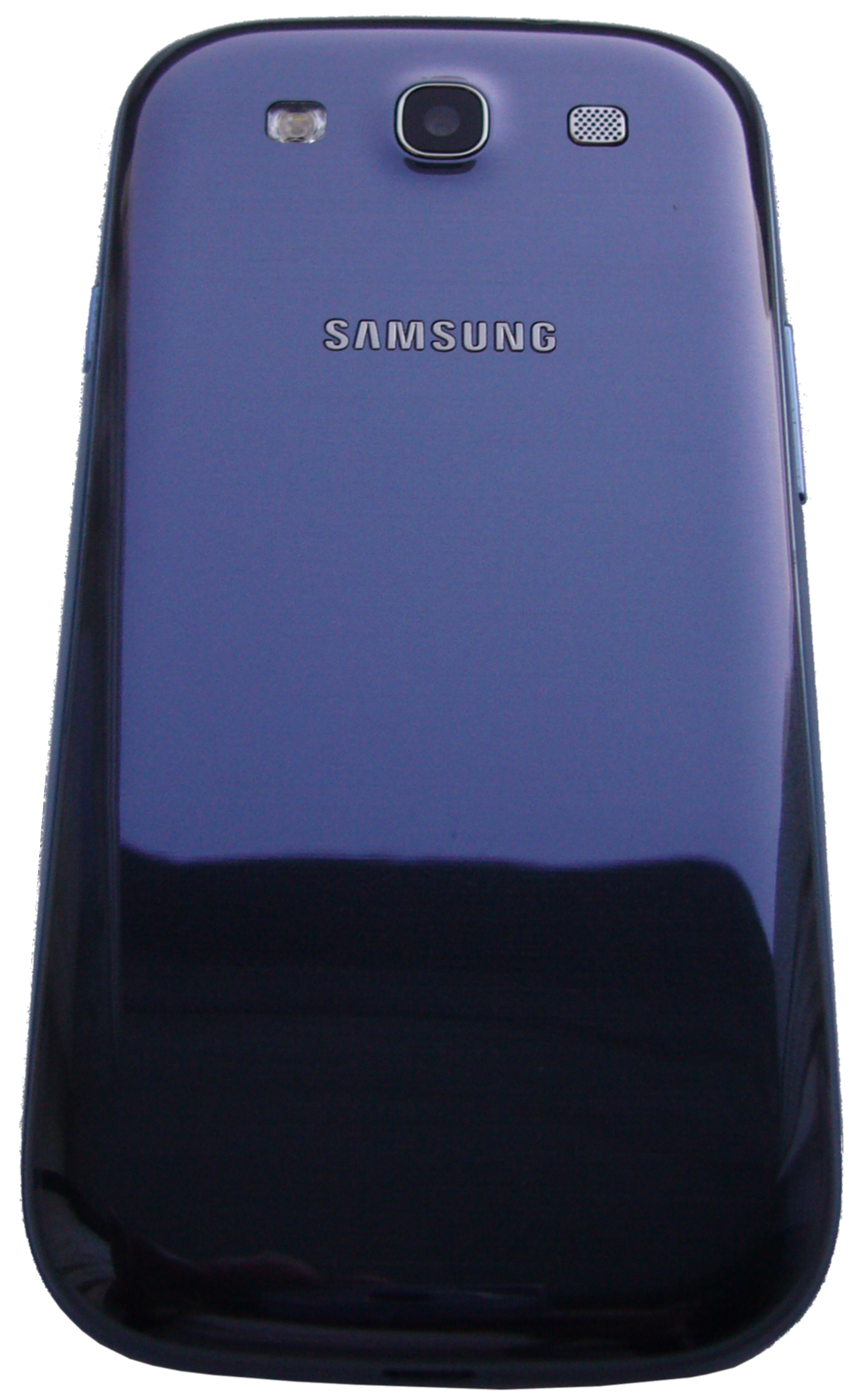 Back side of the Samsung Galaxy S III Pebble Blue.